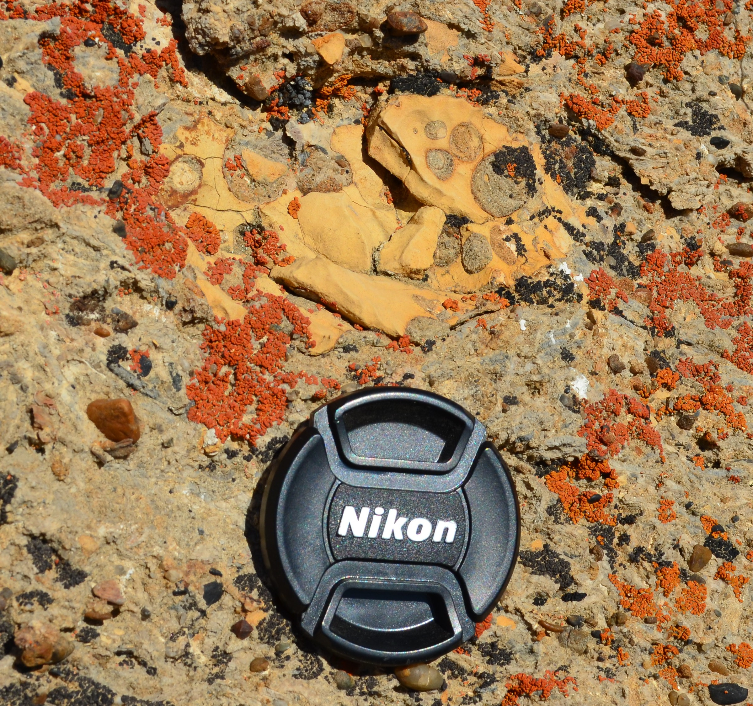 Pholad borings trace fossil in a dolomite clast in the Lower Miocene (Saucesian Stage) Carneros Sandstone from Temblor Range, California